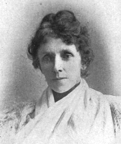 A white woman wearing a white garment loosely draped around her shoulders; her hair is in an updo.